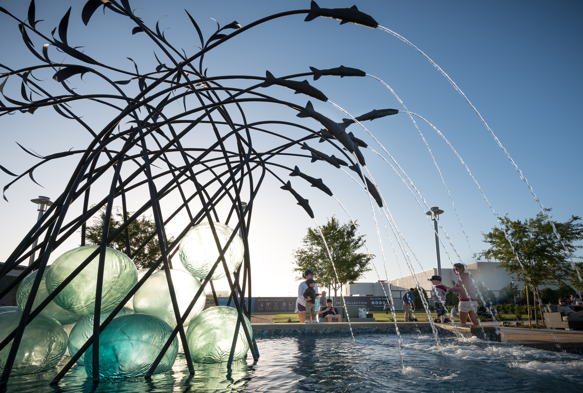 Susan Stinsmuehlen-Amend - Coastal Conversion Art Installation